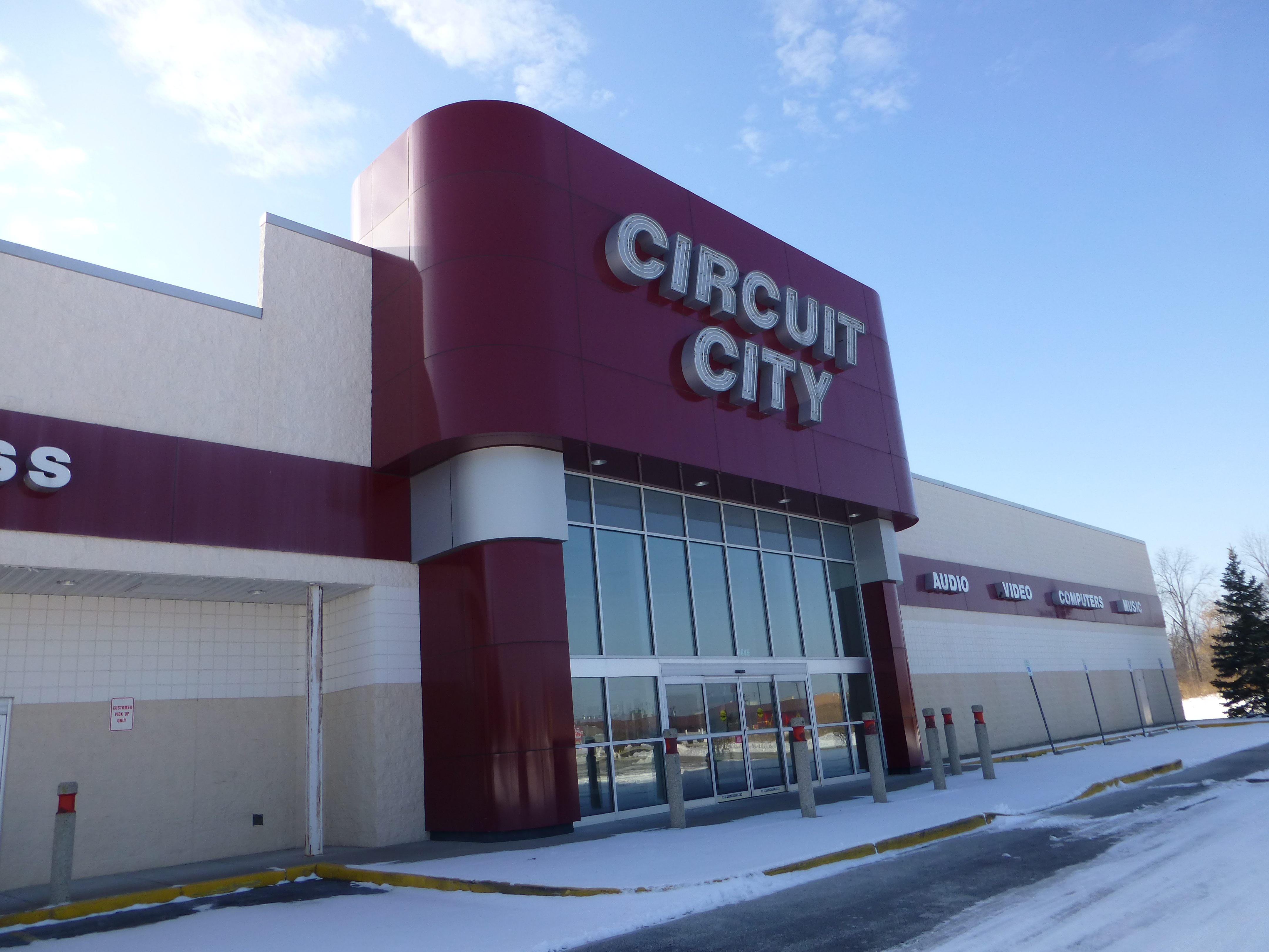 A former Circuit City store near Holland, Ohio that still had signage intact as of January 2013.